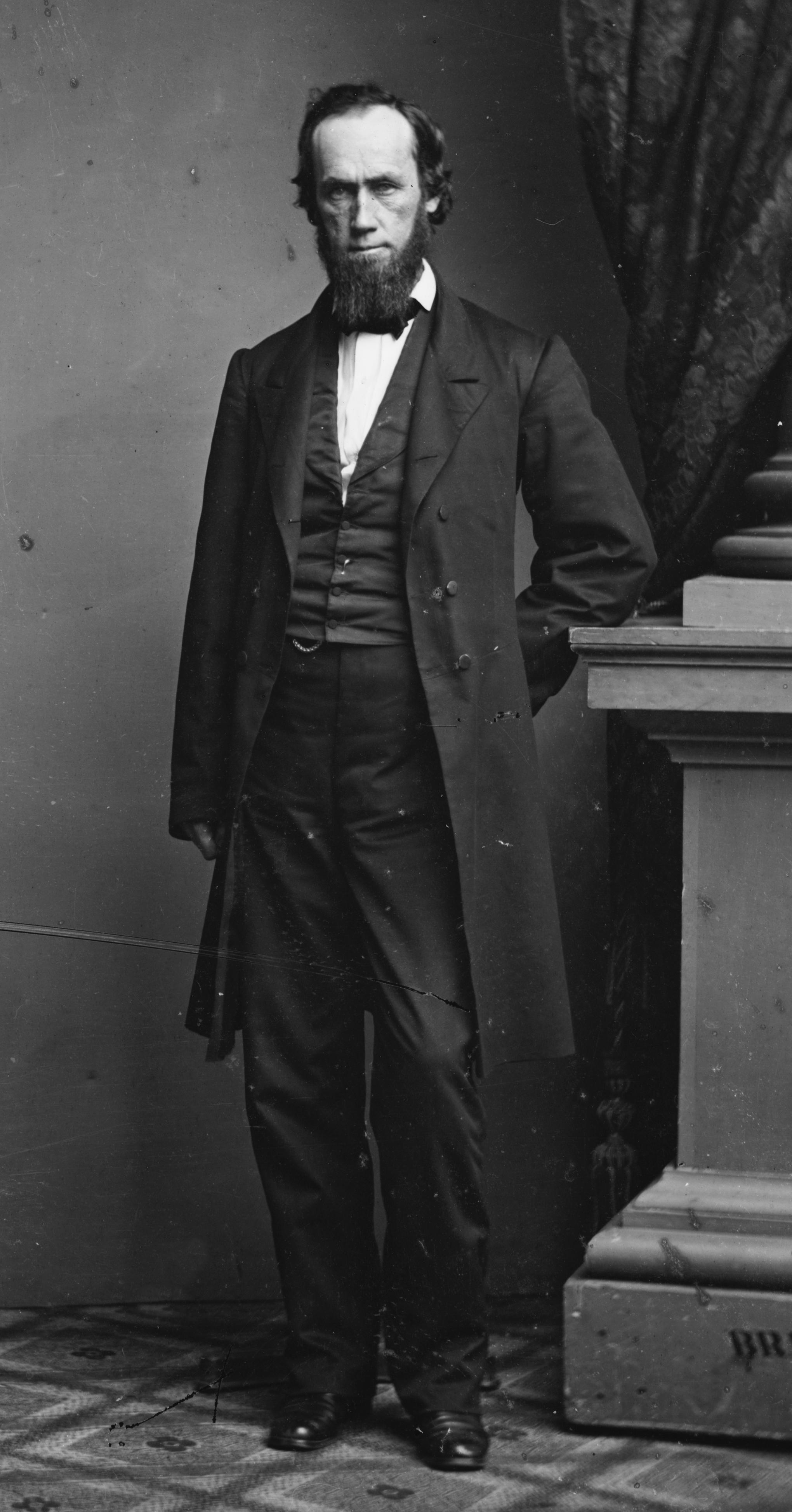 William Vandever. Library of Congress description: "Hon. Wm. Vandever"